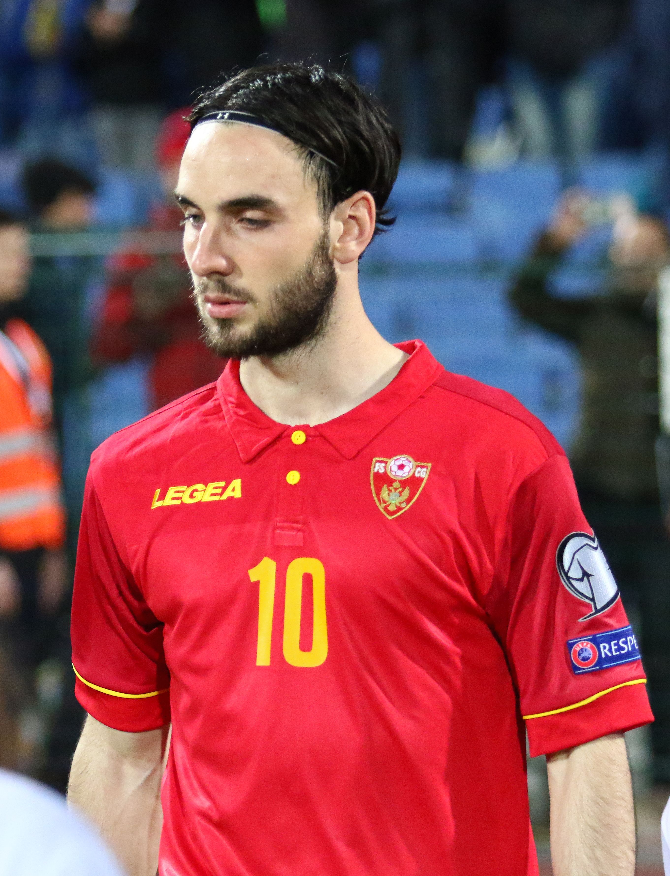 Marko Janković (born 9 July 1995) is a Montenegrin professional footballer who plays as a winger for Italian club SPAL and the Montenegro national team.